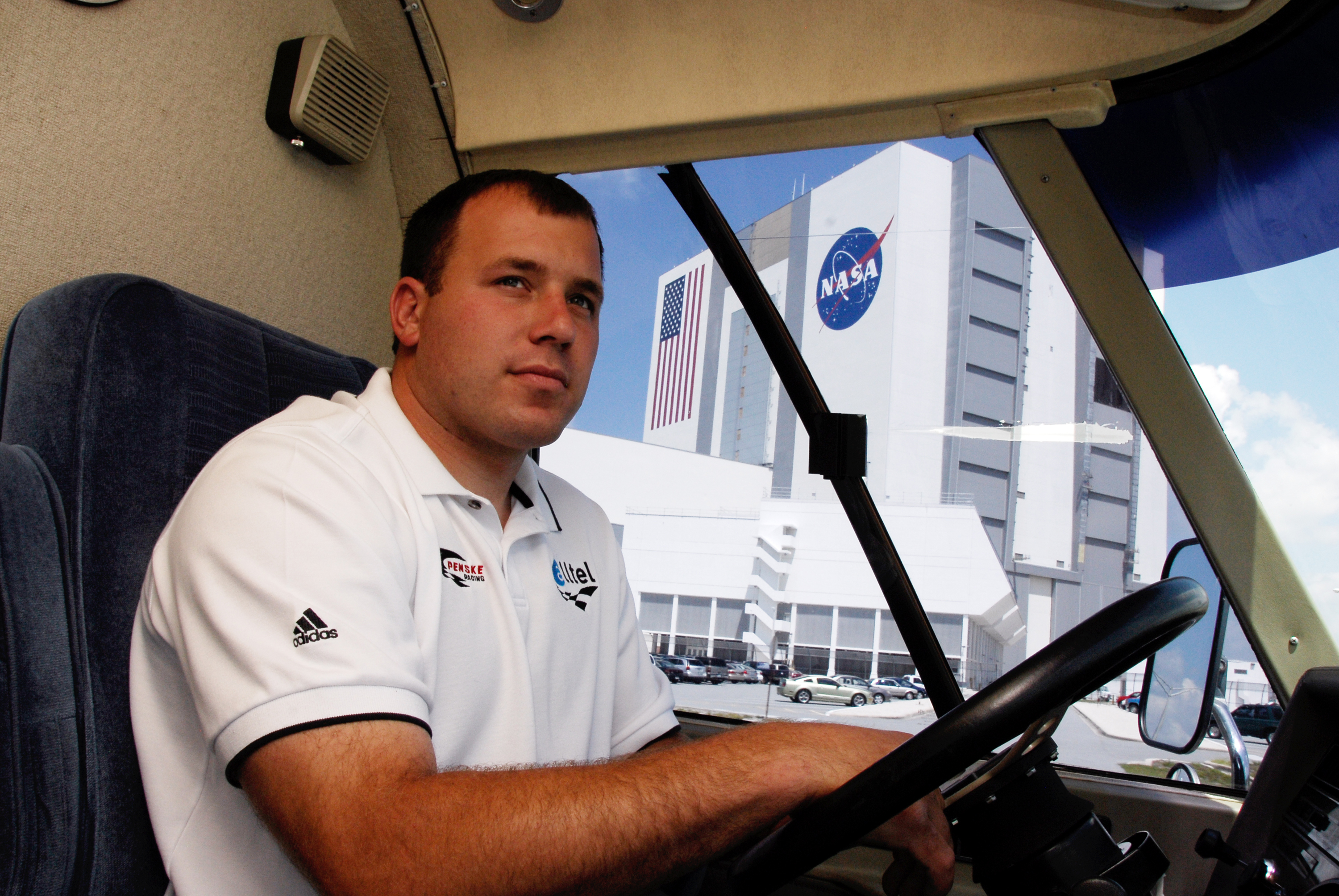 At NASA's Kennedy Space Center, 2008 Daytona 500 winner Ryan Newman drives the Astrovan that takes shuttle crews to the launch pad for launches. Newman is visiting Kennedy in honor of NASA's 50th anniversary and the 50th running of NASCAR's Daytona 500 in February. NASA presented Newman two green racing flags that were flown last February aboard space shuttle Atlantis' STS-122 mission to the International Space Station. One flag was given to Newman, the second was presented to Daytona 500 Experience General Manager Kim Isemann. A third flag that was flown will be kept by NASA for public display. The connection between NASA and Daytona's International Speedway extends beyond their close proximity to one another. During recent years, technology developed for the space program has found many uses on Earth, including helping NASCAR drivers stay safe and increase performance.